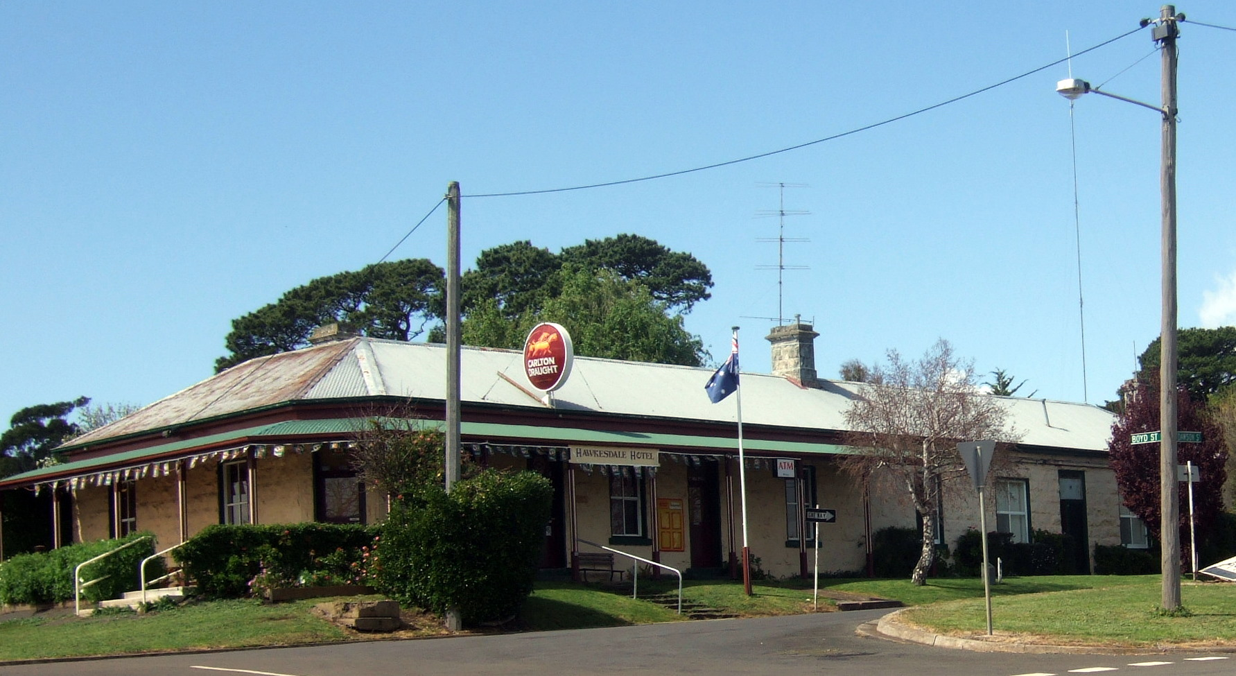 The pub at Hawkesdale.